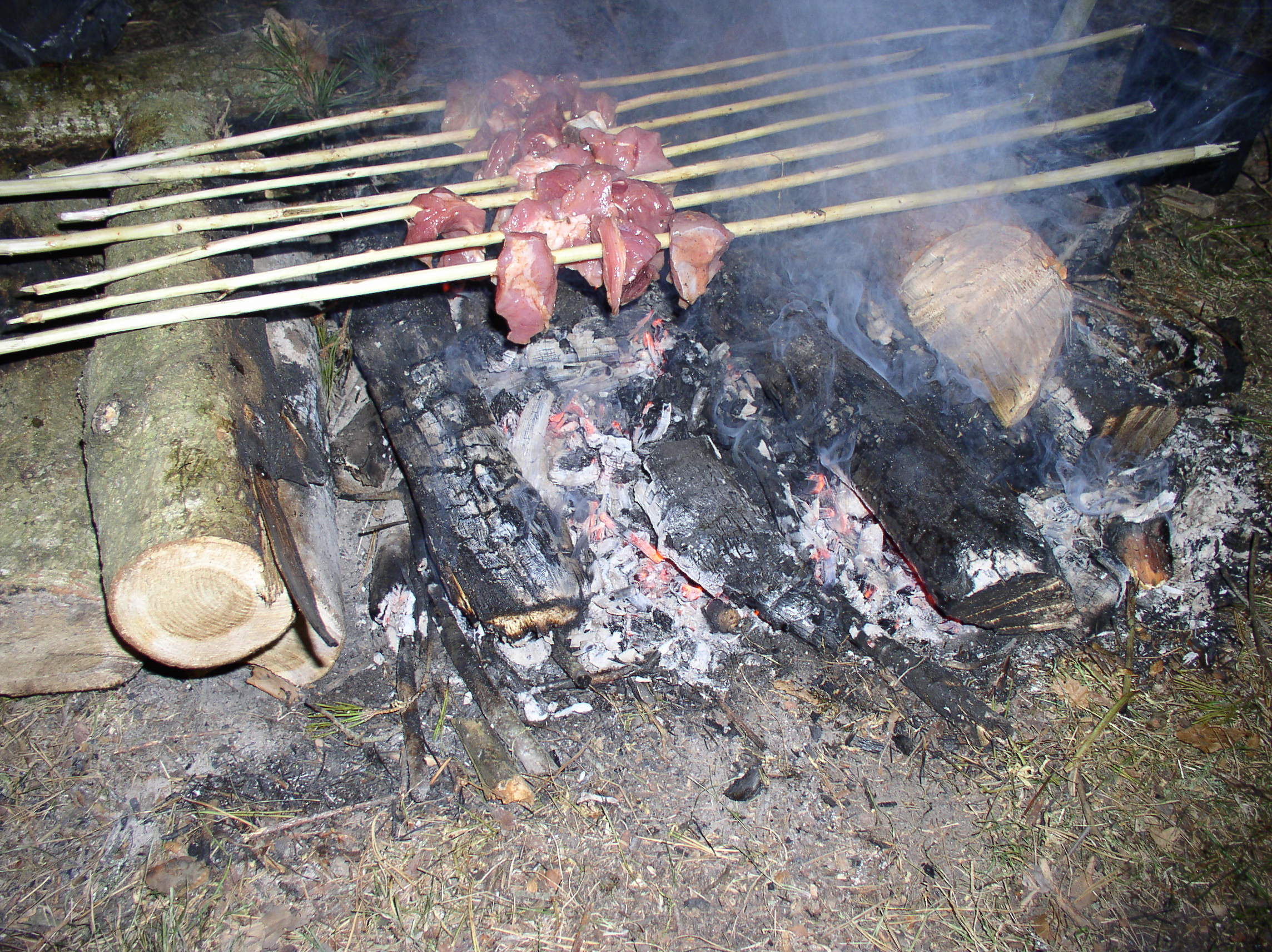 Preparing shashlik on fire